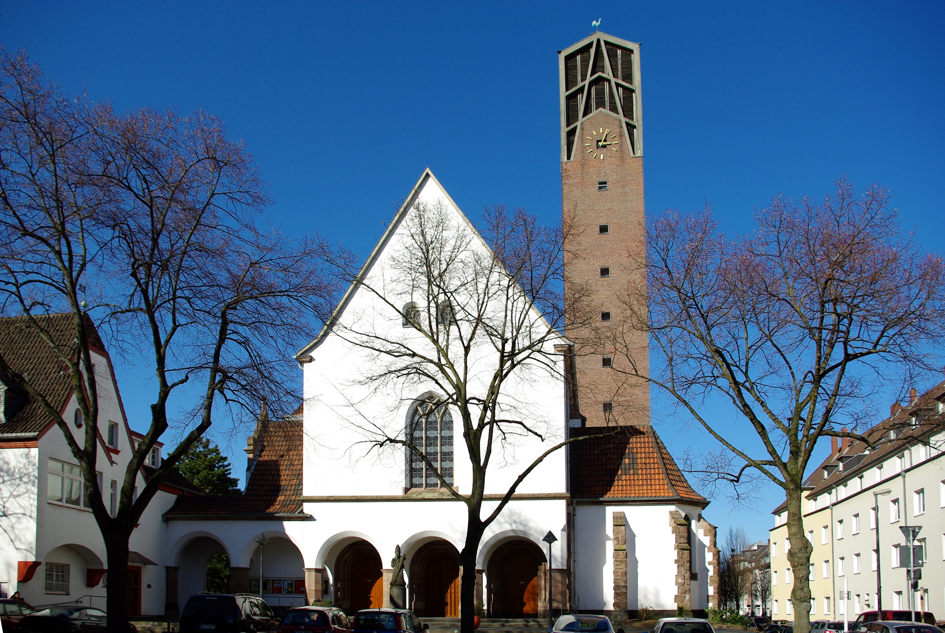 St. Pius, Catholic Church, Cologne-Zollstock